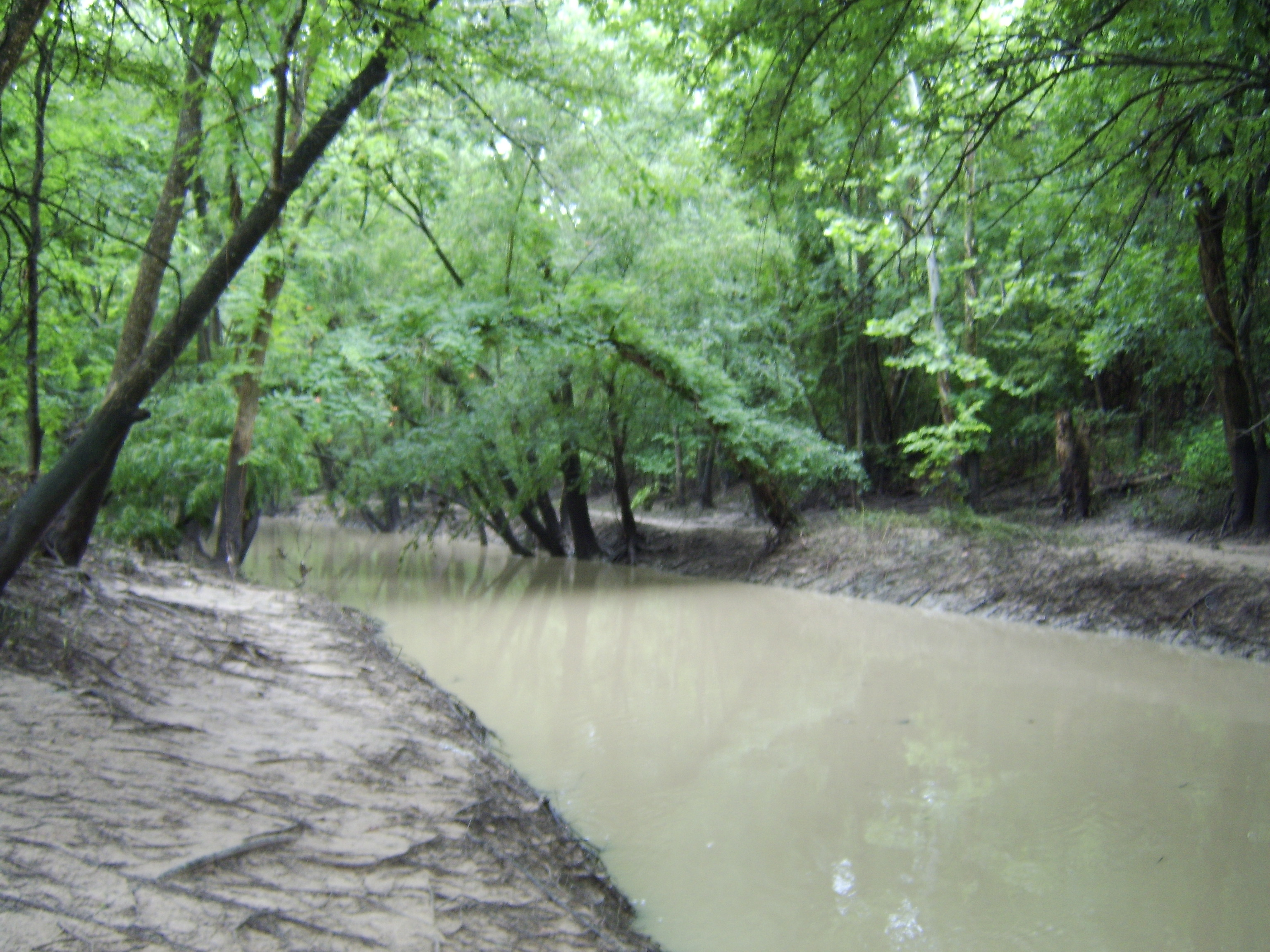 A small branchoff from the Buffalo Bayou in Terry Hershey Park.